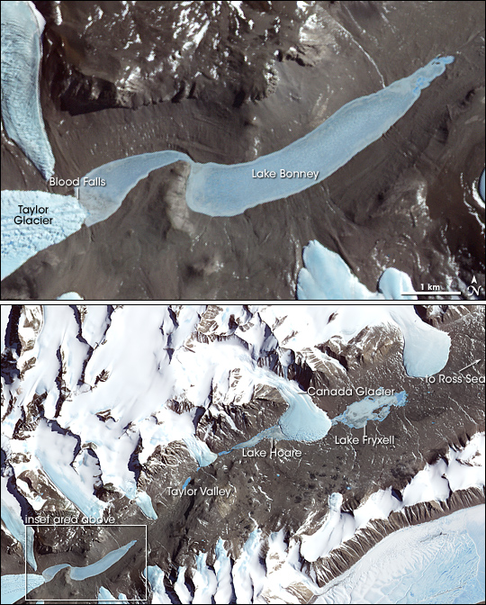 annotated satellite image map of Taylor Valley, enlarged inset of Lake Bonney